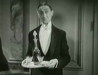 Edgar Norton in the American drama film The Lady Refuses (1931).